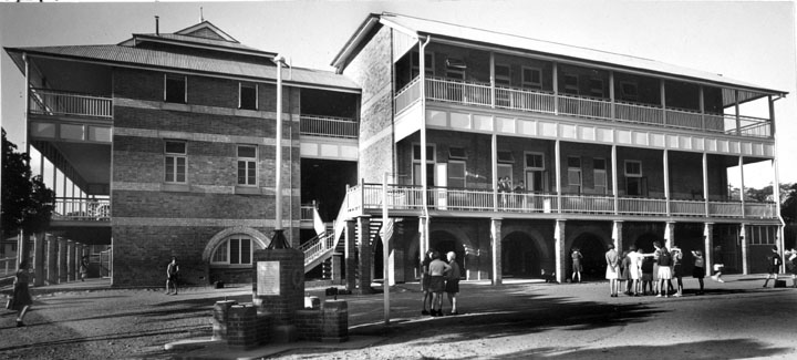 New Farm State School, additional story.